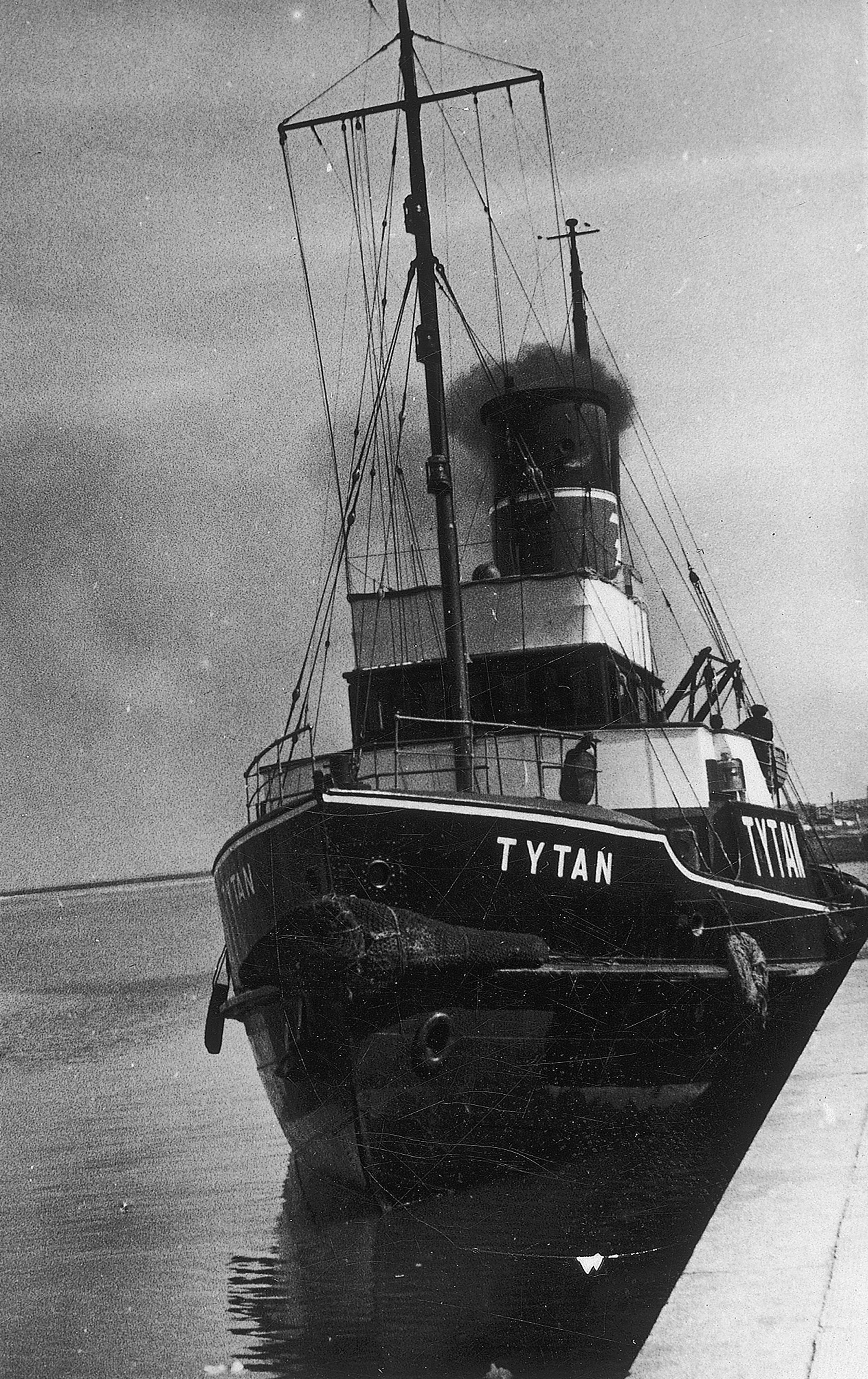 Polish tug "Tytan" in Gdynia (or Gdańsk).